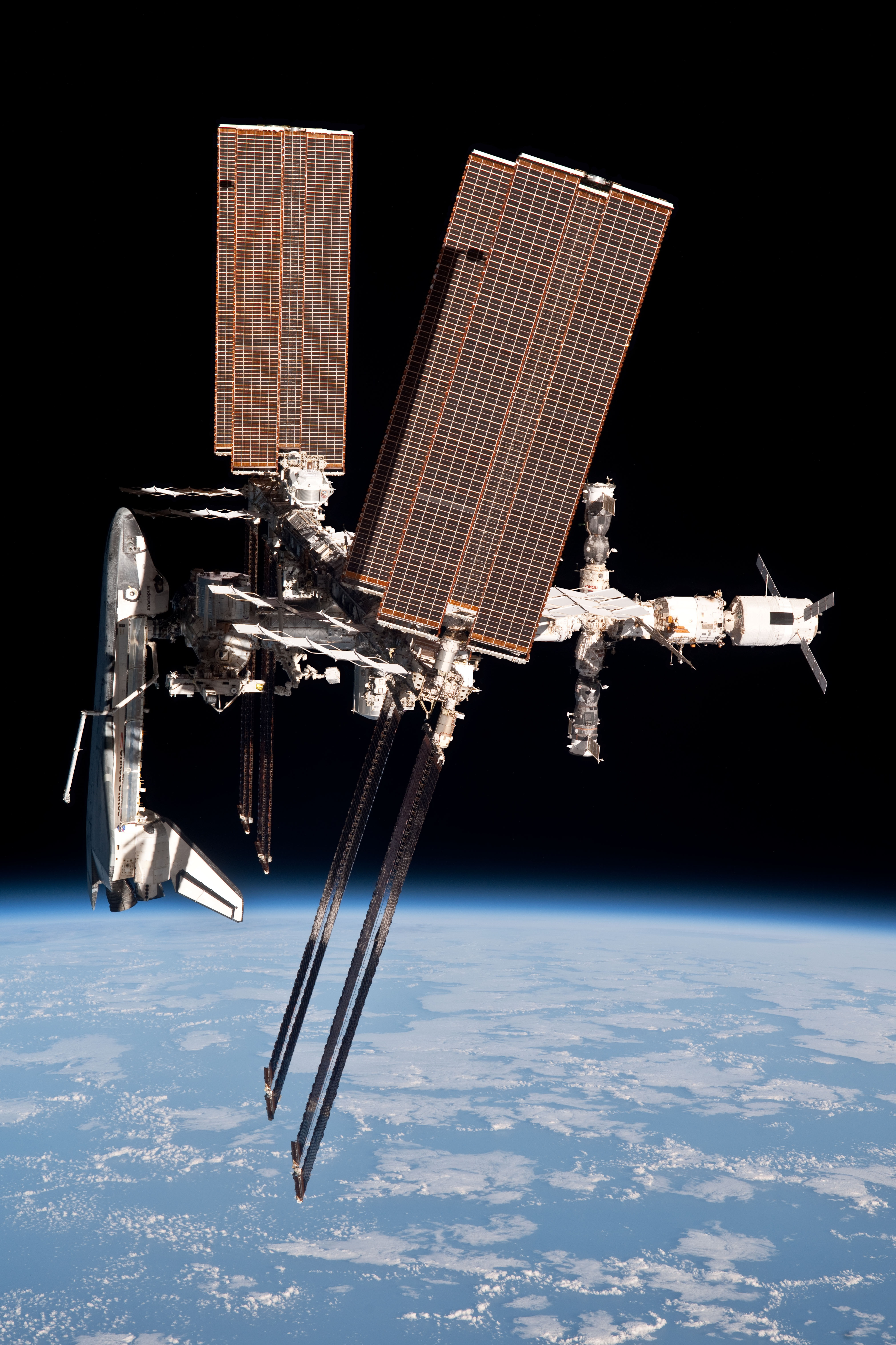 This image of the International Space Station and the docked space shuttle Endeavour, flying at an altitude of approximately 220 miles, was taken by Expedition 27 crew member Paolo Nespoli from the Soyuz TMA-20 following its undocking on May 23, 2011 (USA time). The pictures taken by Nespoli are the first taken of a shuttle docked to the International Space Station from the perspective of a Russian Soyuz spacecraft. Onboard the Soyuz were Russian cosmonaut and Expedition 27 commander Dmitry Kondratyev; Nespoli, a European Space Agency astronaut; and NASA astronaut Cady Coleman. Coleman and Nespoli were both flight engineers. The three landed in Kazakhstan later that day, completing 159 days in space. This was the final mission of Endeavour.